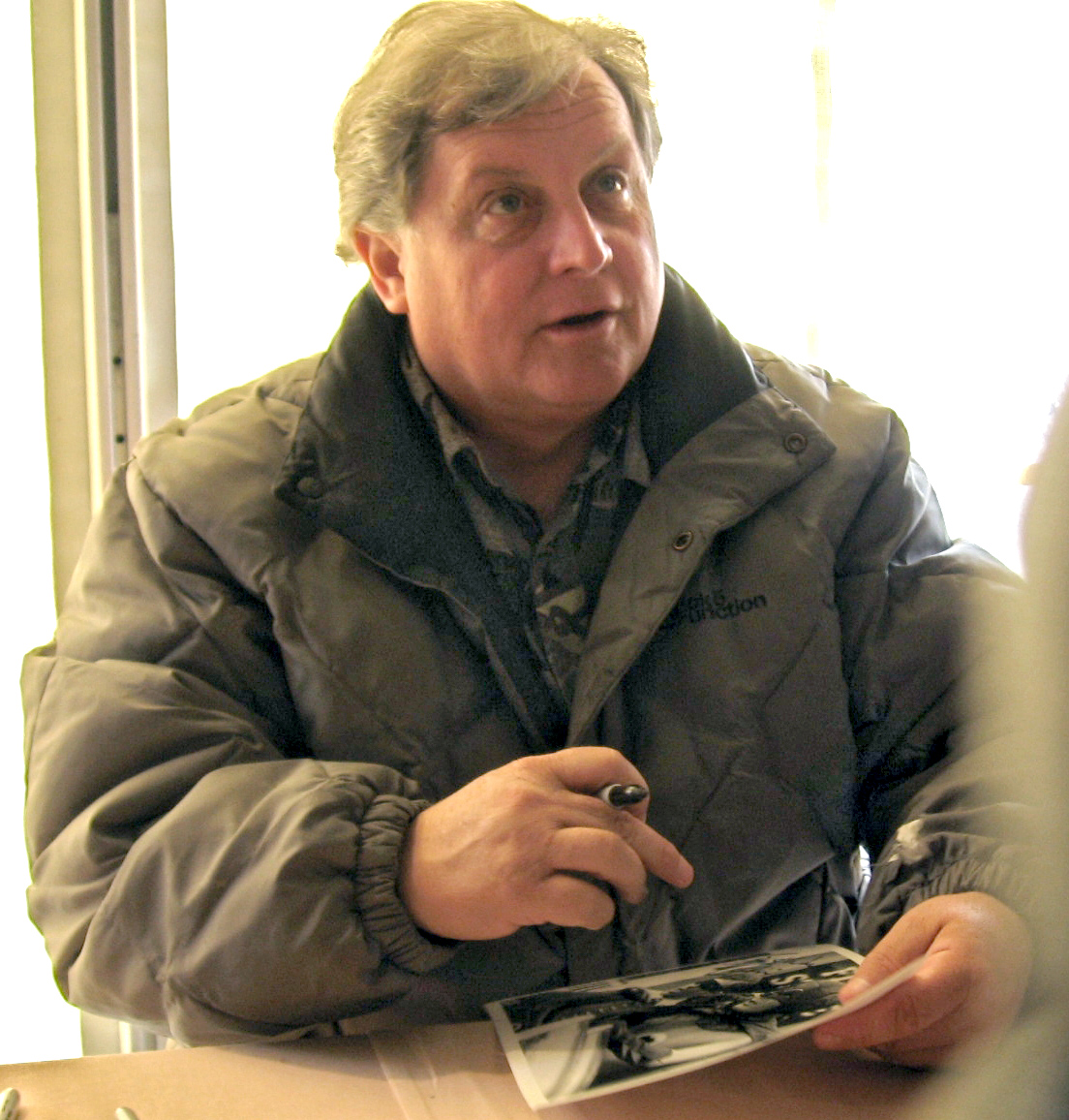 Actor Burt Ward signing autographs in New Jersey.